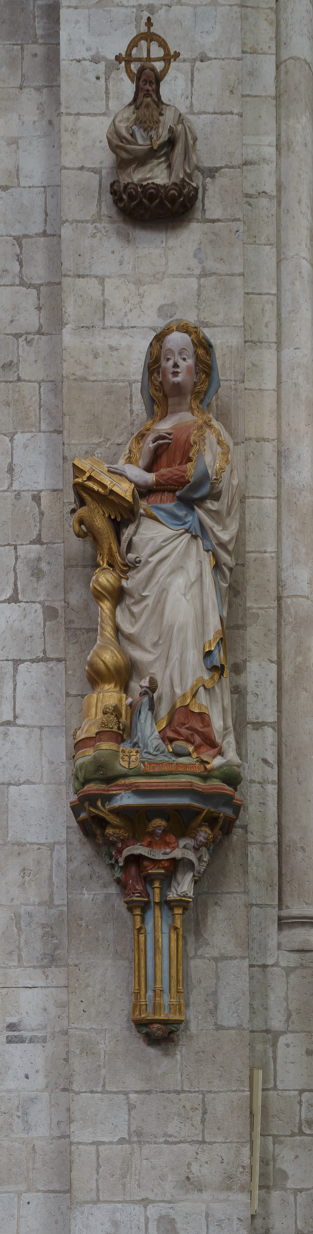 Cologne, Germany: Annunciation MariaThis is a photograph of an architectural monument.